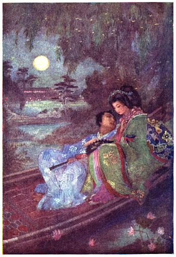 painting used as the frontpiece of: Mythen & Legenden van Japan Door F. Hadland Davis Voor Nederland bewerkt door Dr B.C. Goudsmit Met 32 gekleurde platen door Evelyn Paul Tweede druk. Zutphen—W. J. Thieme & Cie 1917 (Note: also published in the US prior to 1923)